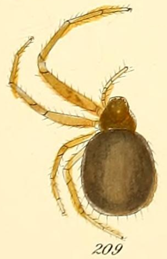 Female Plato bicolor. Captioned as: "Wendilgarda bicolor" Specimen from Amazonas, Brazil